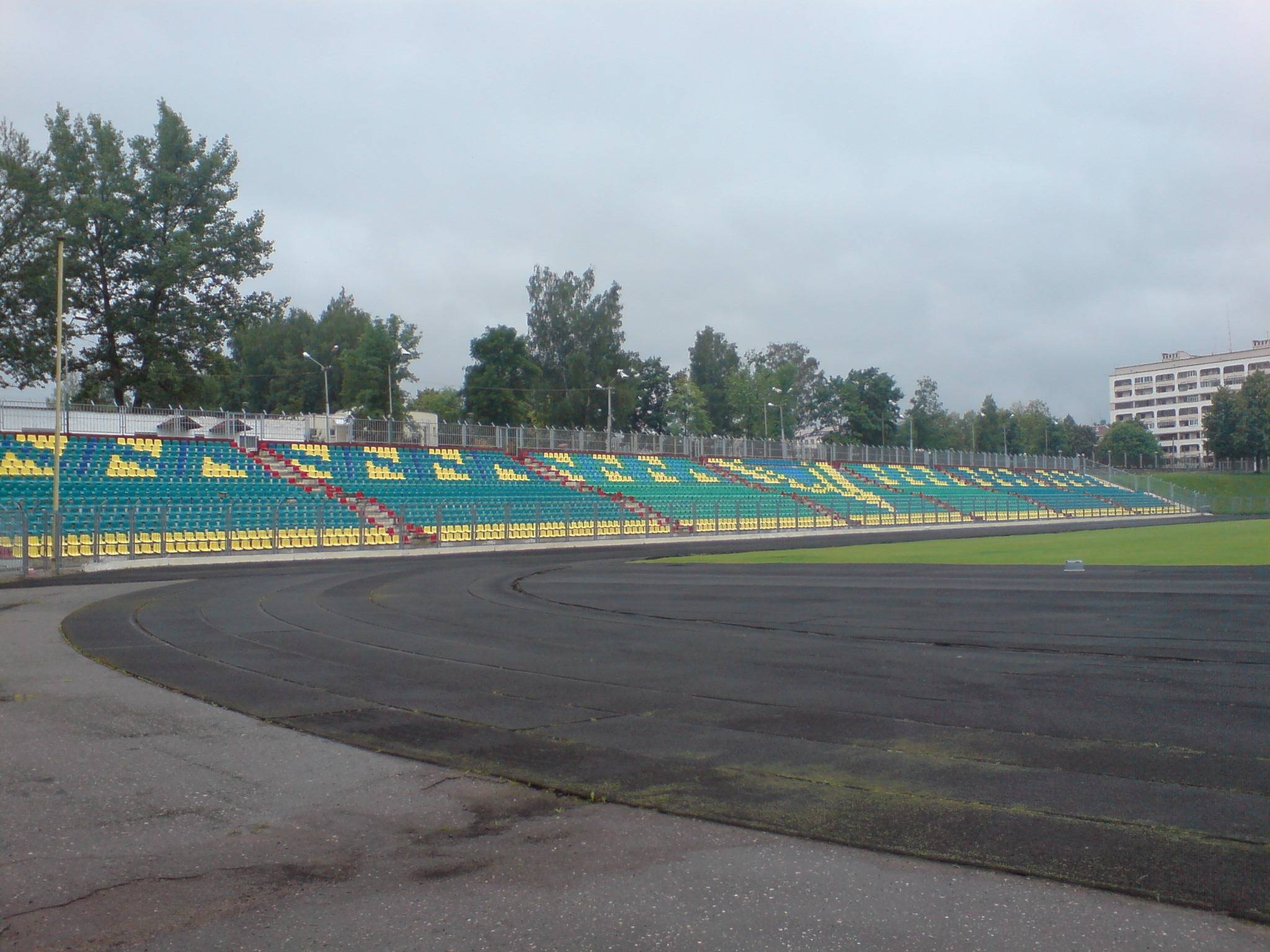 Stadium in Navapolatsk